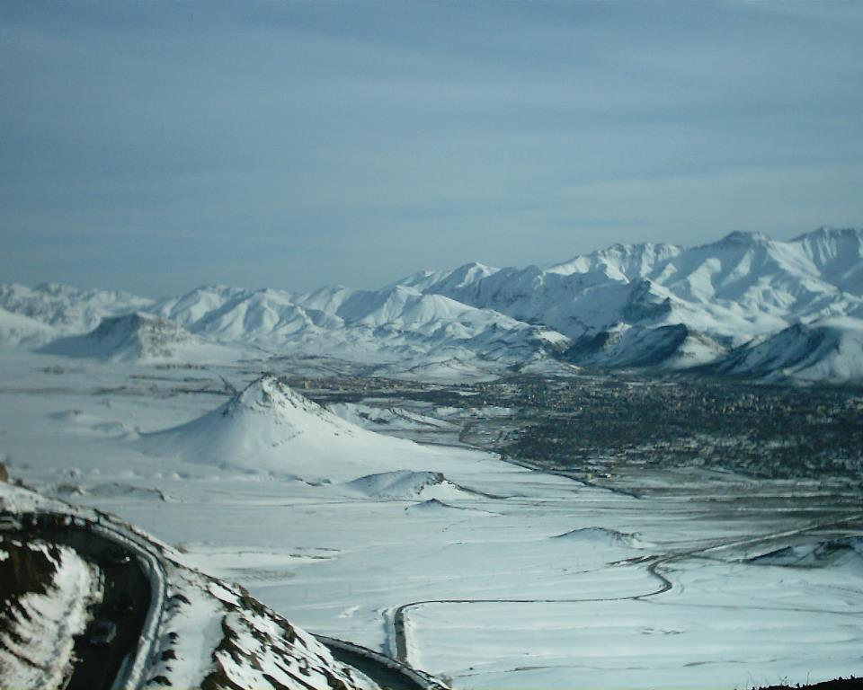 Vision of Tafresh city from Kherazan curve